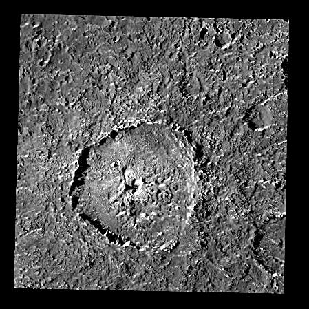 Courtesy NASA/JPL-Caltech ([1]) The crater Tindr on Callisto, photographed by Galileo.